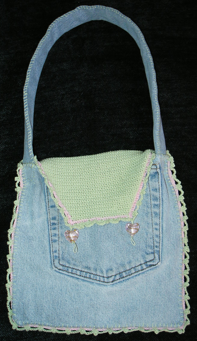 Child's purse made from denim (used blue jeans) with crochet lace (size 10 mercerized cotton in pink and green worked on 1.75mm hook) and glass beads. Original design.